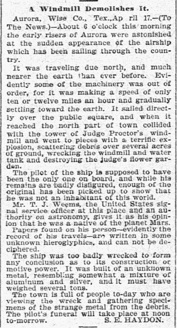 S. E. Haydon, "A Windmill Demolishes It," The Dallas Morning News, April 19, 1897, p. 5. Concerning the Aurora.